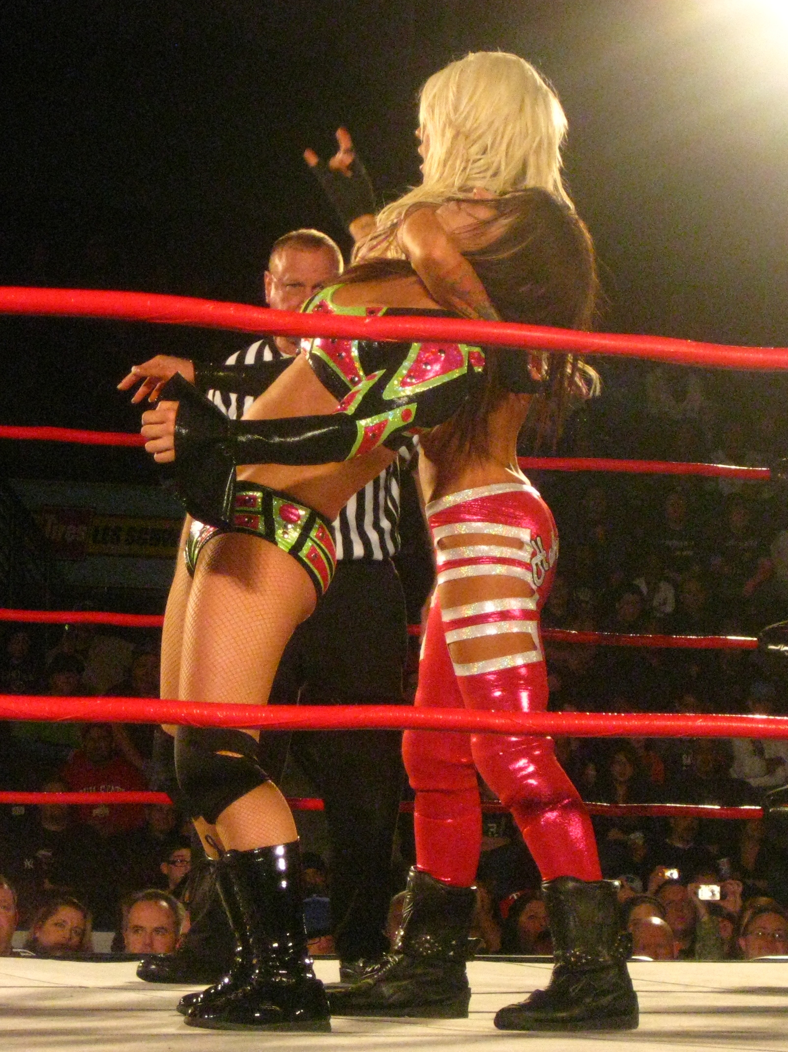 Angelina Love setting up for a move known as "Break a Bitch" (an inverted facelock which transitions into a double knee backbreaker) on Sarita.